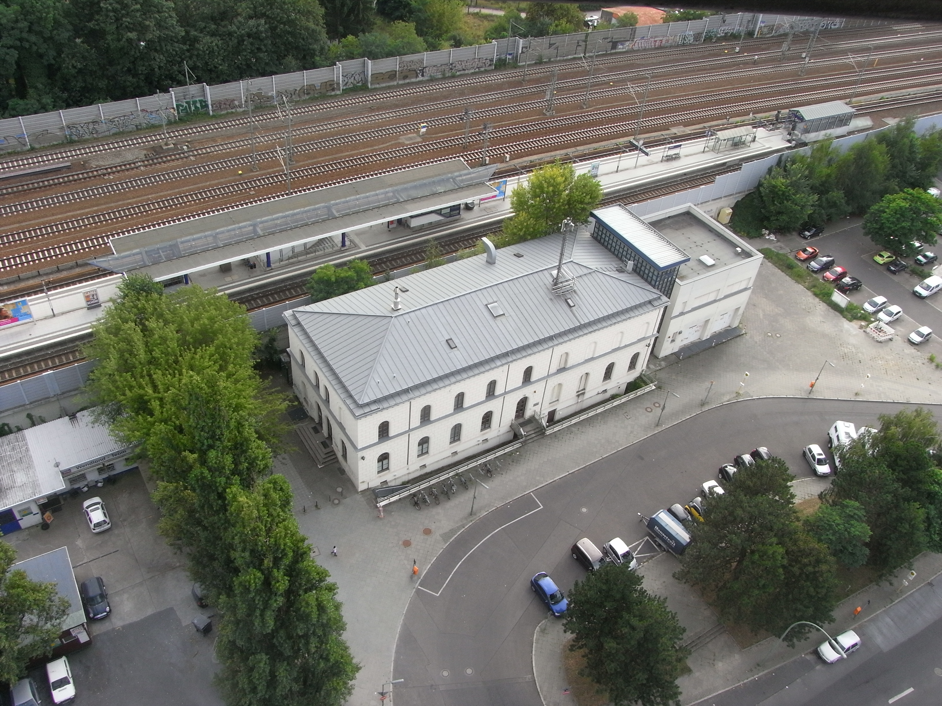 Aerial view of station Berlin-Stresow